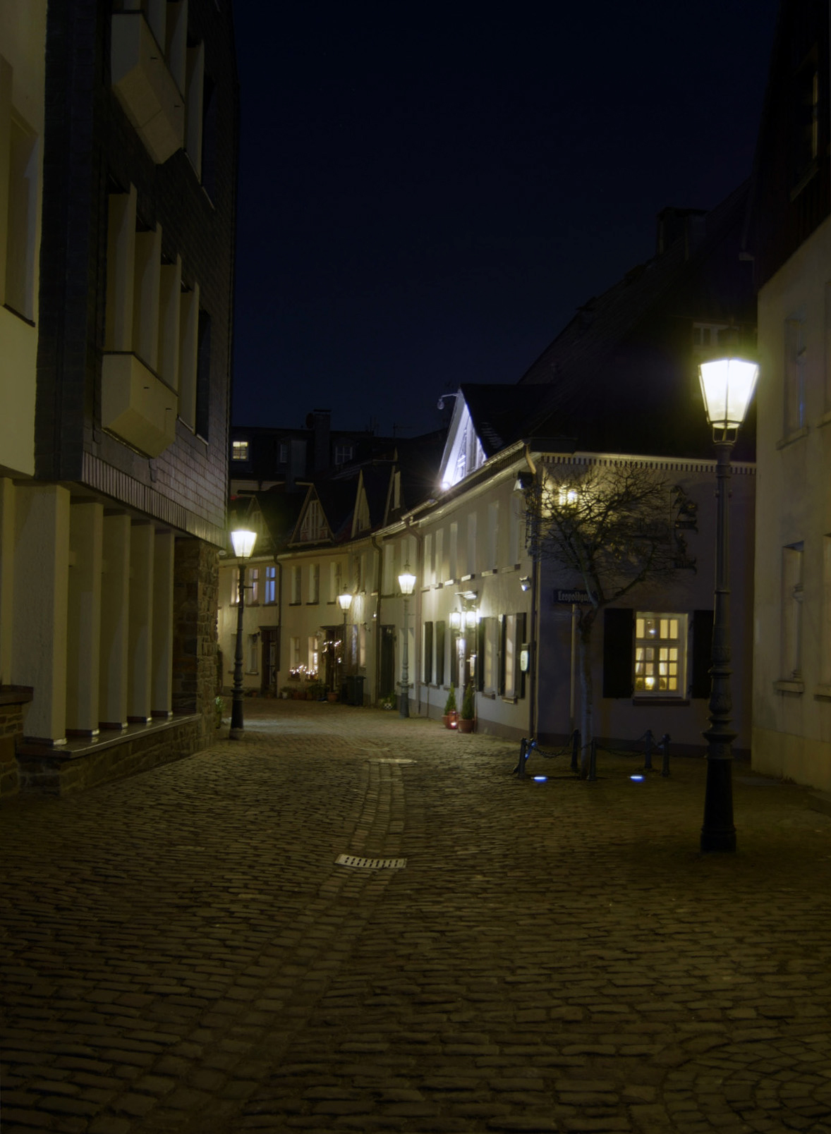 A street in Lüdenscheid (Germany) at night.